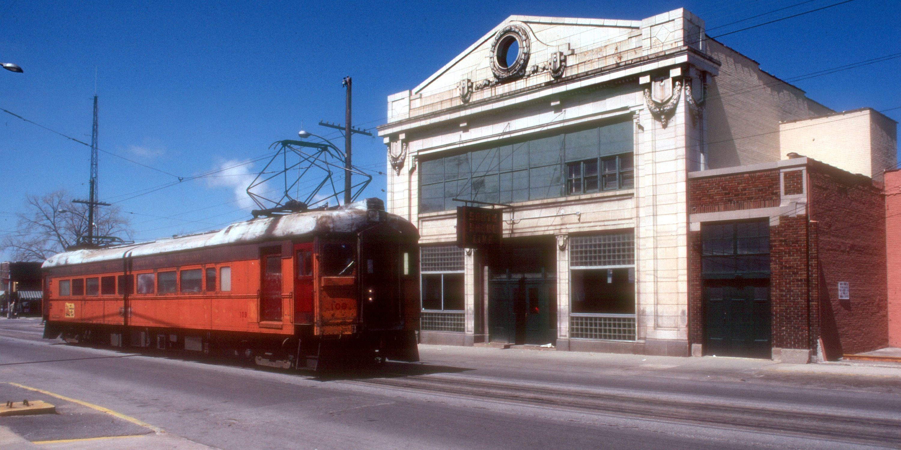 Chicago Shore South & South Bend interurban car #109 at 11th Street station in April 1981